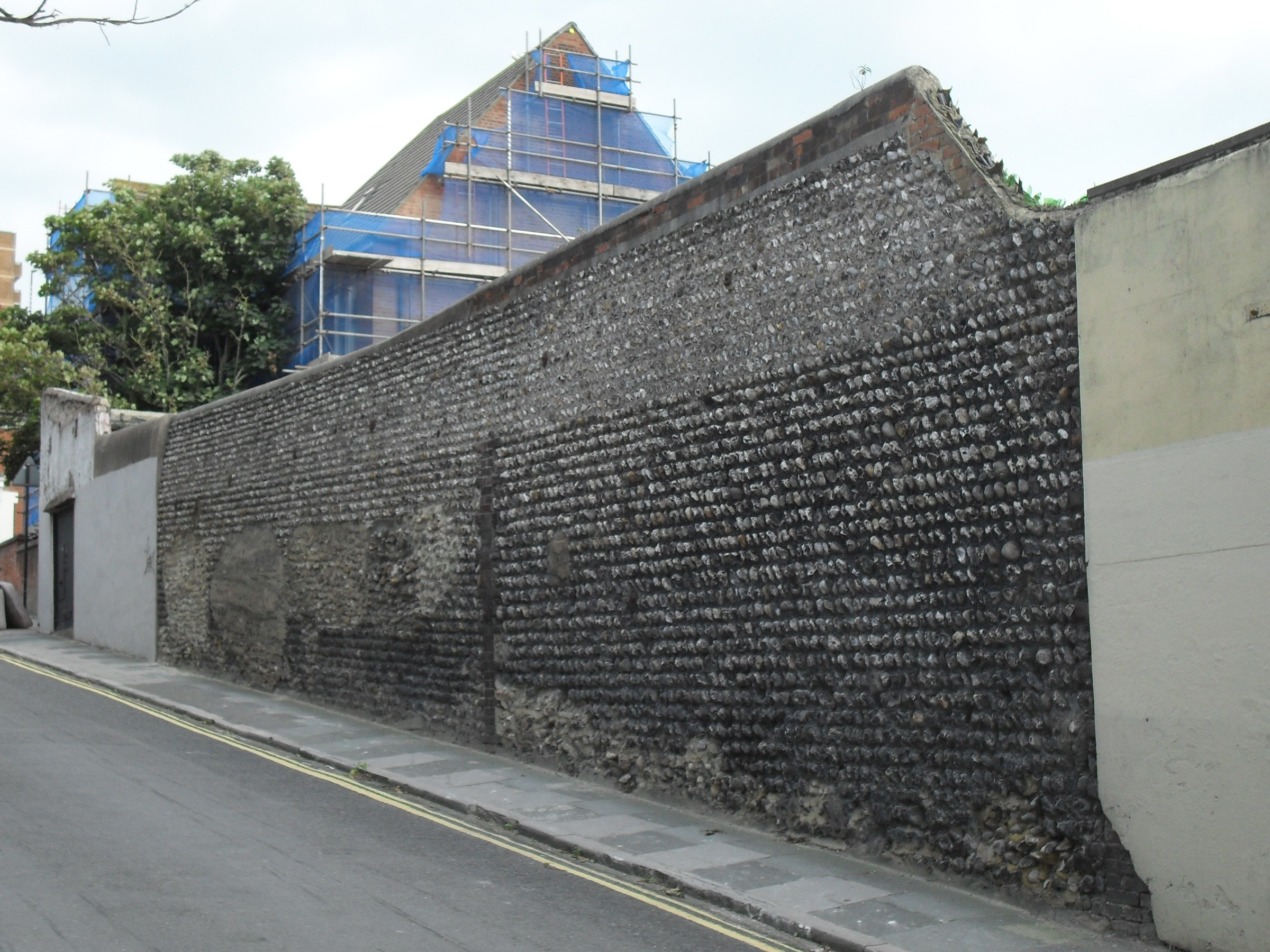 Flint boundary wall at Carlton Hill, City of Brighton and Hove, England. Such 19th-century walls are characteristic of this area.